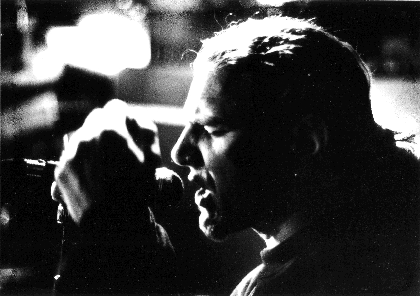 Simon of Rinderwahnsinn live @ Cooky*s (Frankfurt/Main)